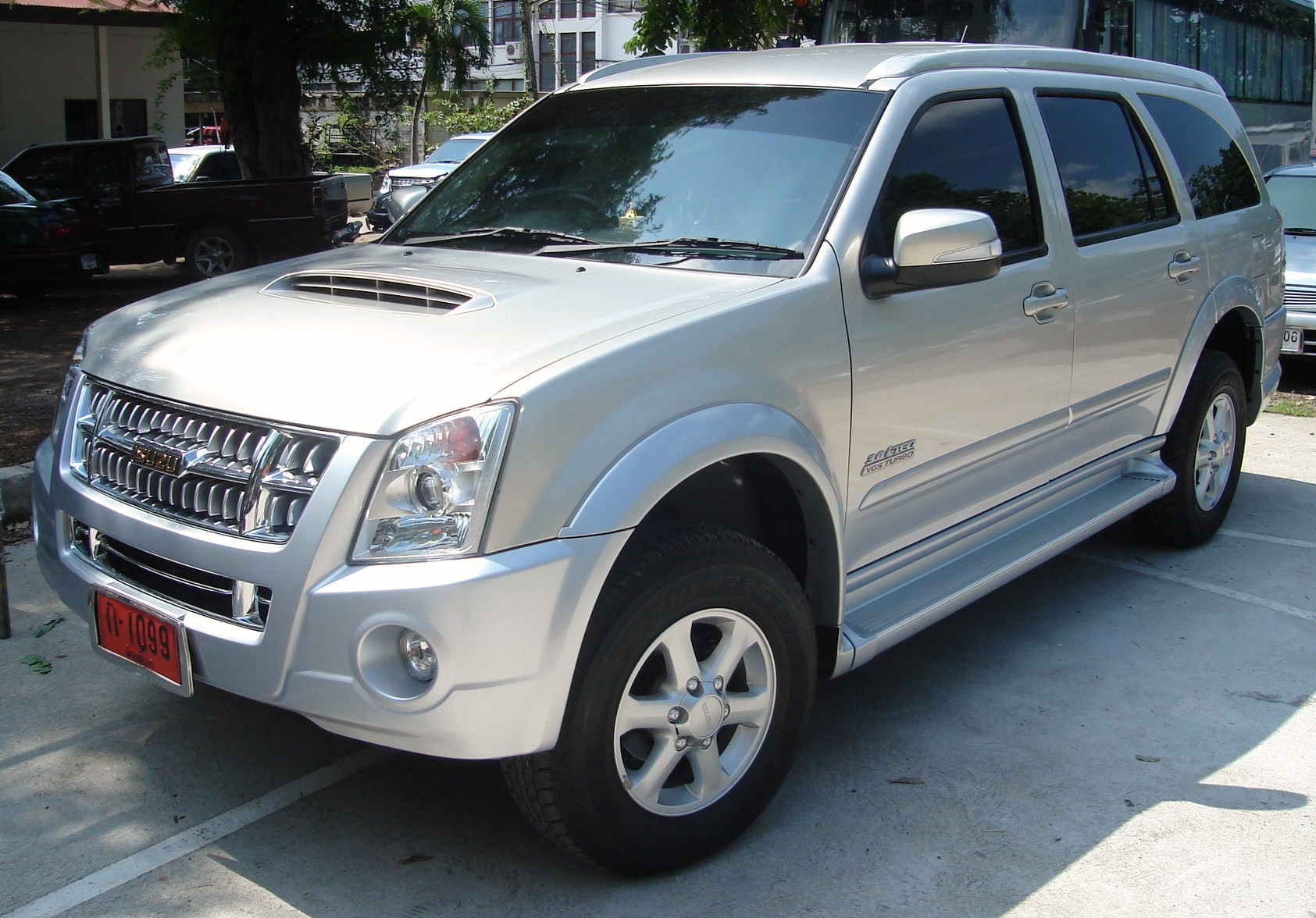 2008 Isuzu MU-7